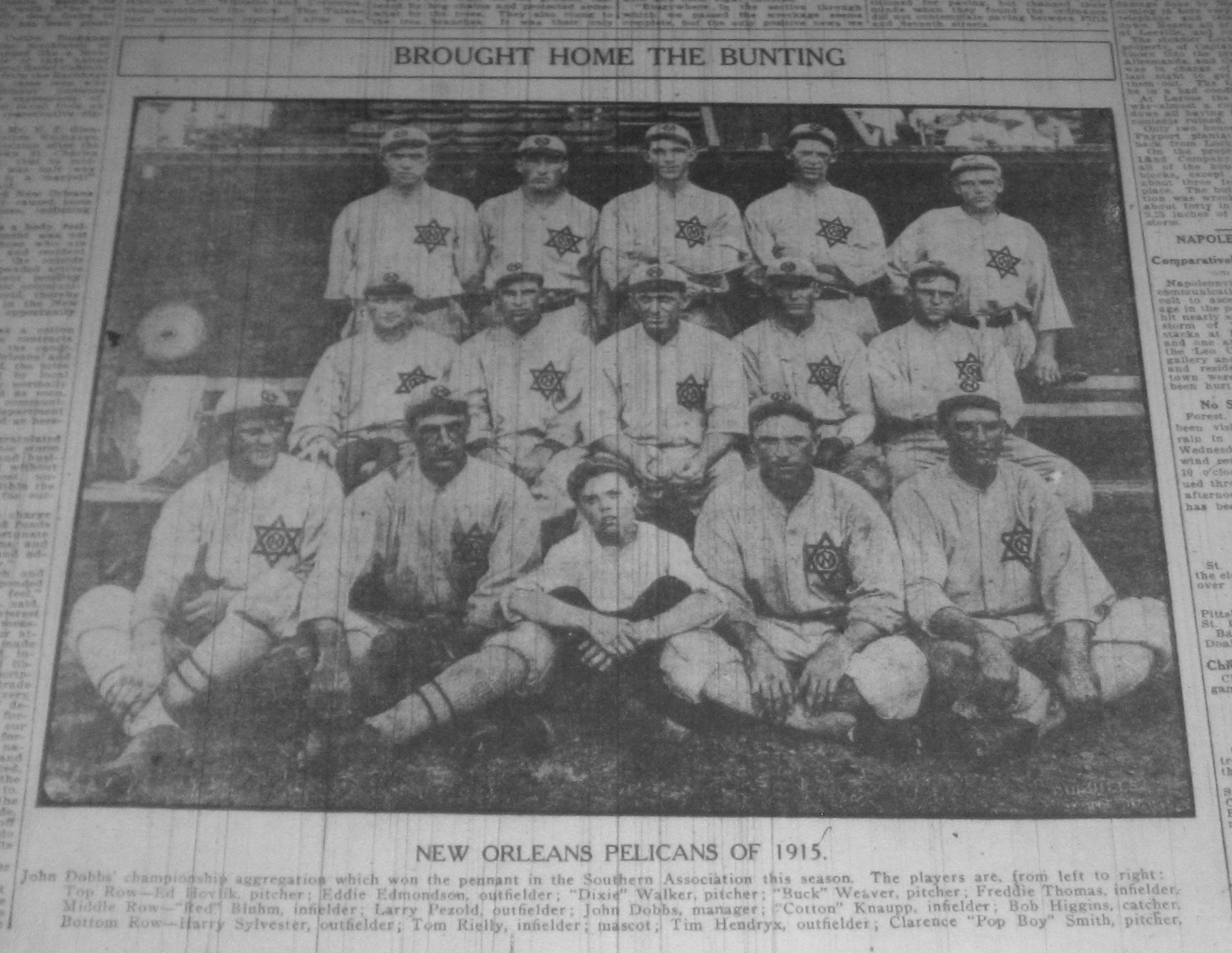 New Orleans Pelicans baseball team, 1915